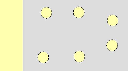 Illustriation of a "dieball field", in Norwegian "dødballbane".